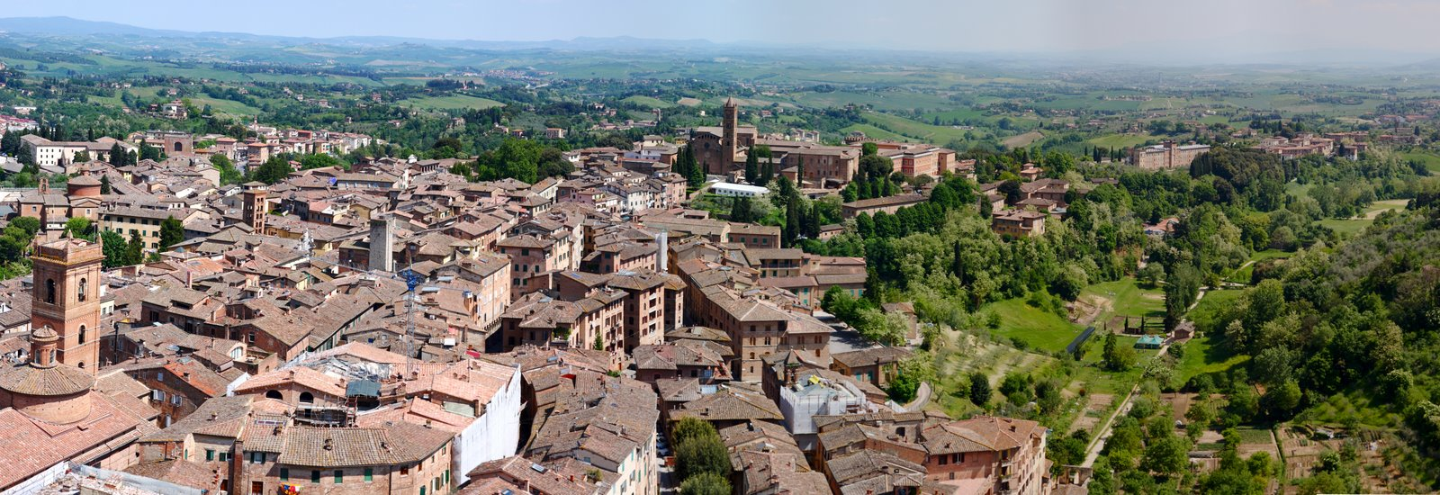 Siena, Tuscany view from the Campanile